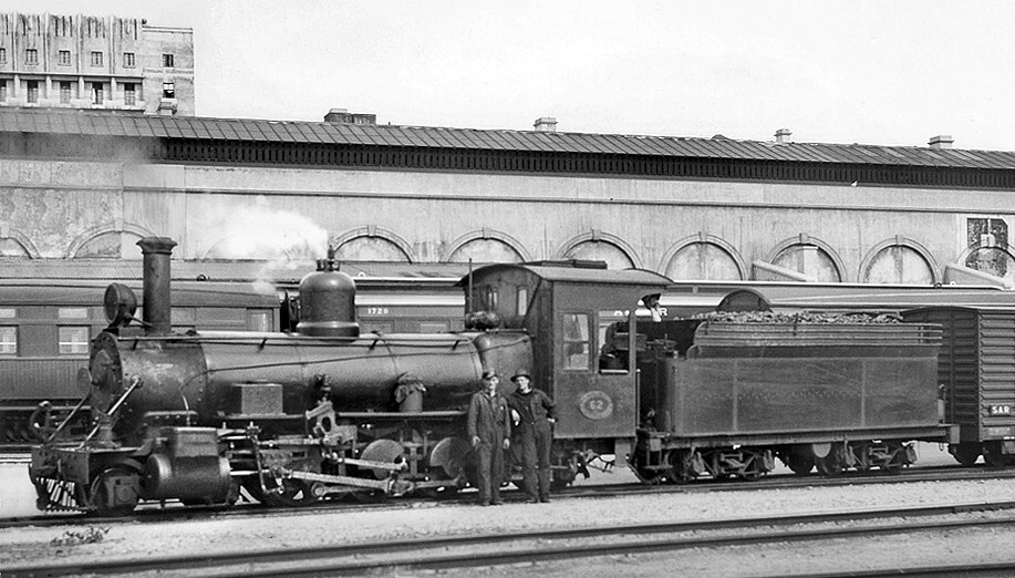 SAR Class NG10 no. NG62 (4-6-2) outside Port Elizabeth railway station